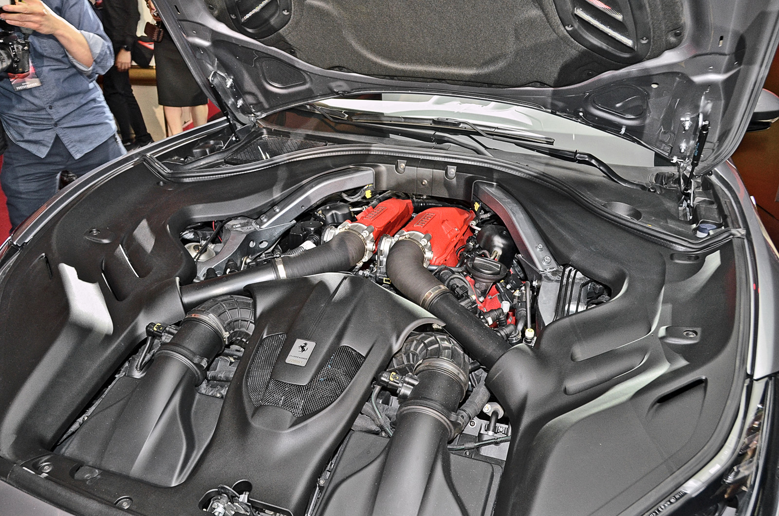 Portofino's engine compartment, engine is Tipo 154 BD.